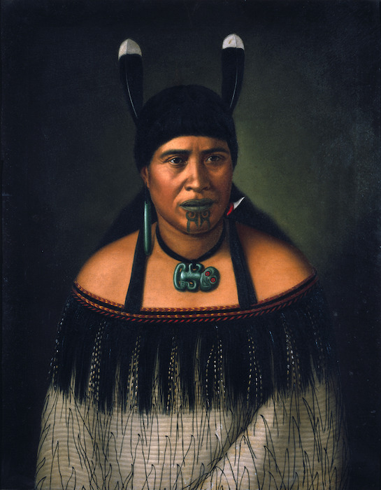 Hinepare, a woman of the Ngāti Kahungunu tribe. Shows a half-length portrait of a Maori woman wearing a hei-tiki around her neck, pounamu earring and shark tooth earring, and two huia feathers in her hair. She wears a cloak with black fringe border, and has a moko design on her chin.